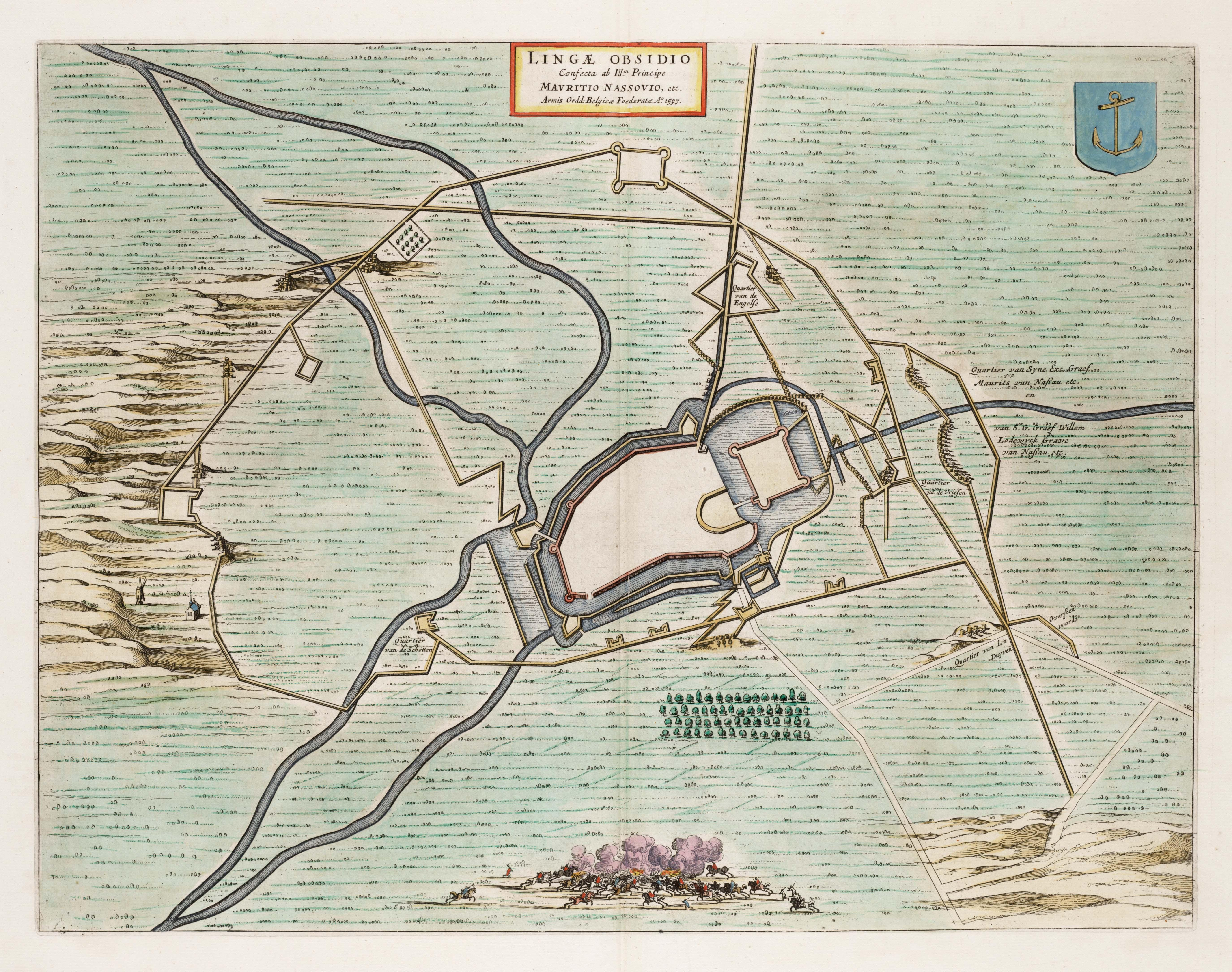 This maps depicts siege of the German town Lingen by a Dutch army led by Prince Maurits. The fortress is surrounded by army troops and siege machines. The map was included in the first volume of Joan Blaeu's (1698-1673) Town Books of the Netherlands which was dedicated to the Northern Netherlands.